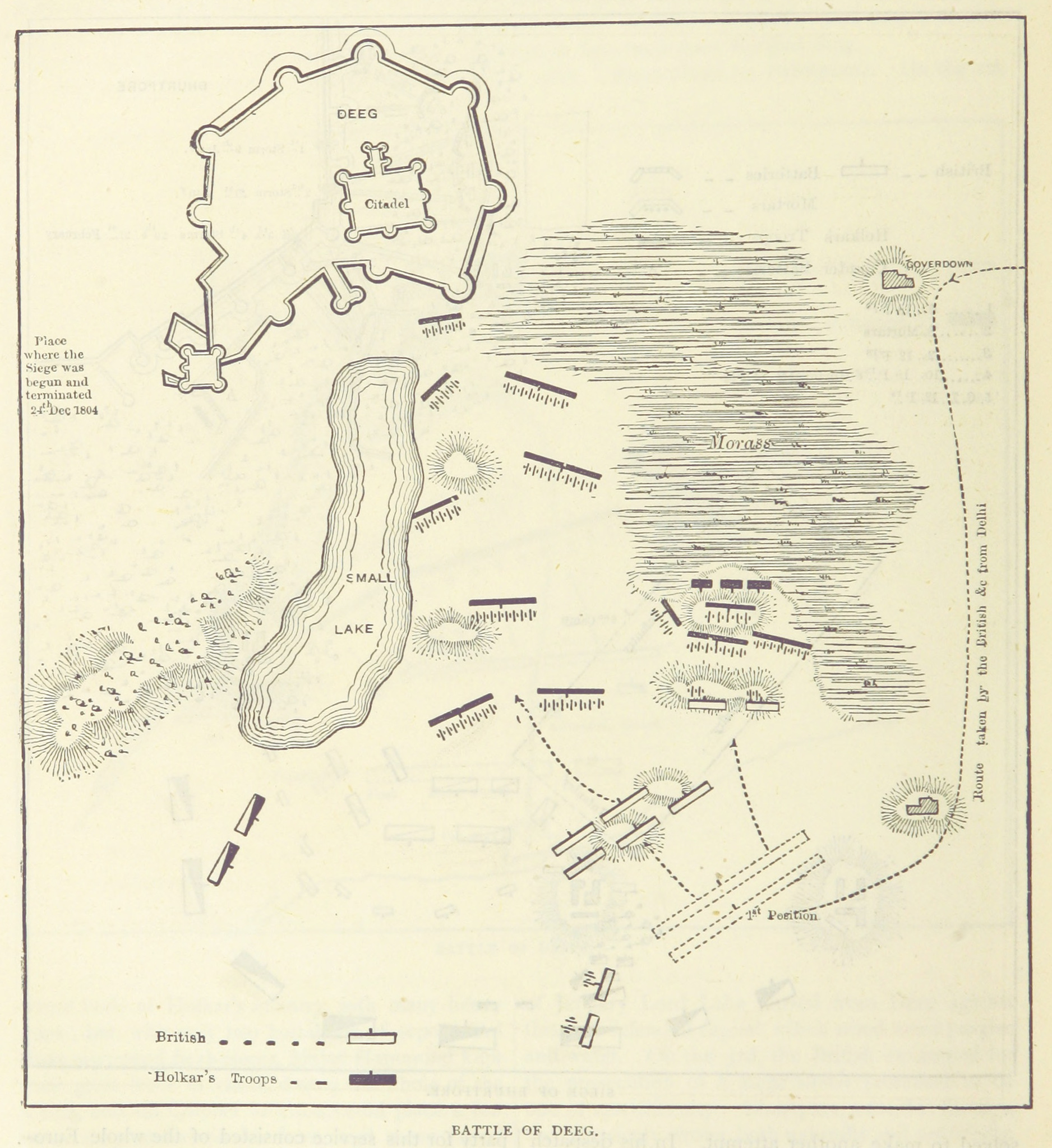 The 1804 Battle of Deeg, an East India Company victory over the Maratha Empire.